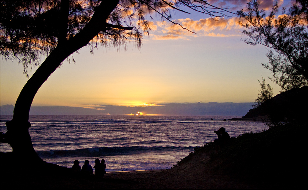 Ponta do Ouro sunset, Mocambique